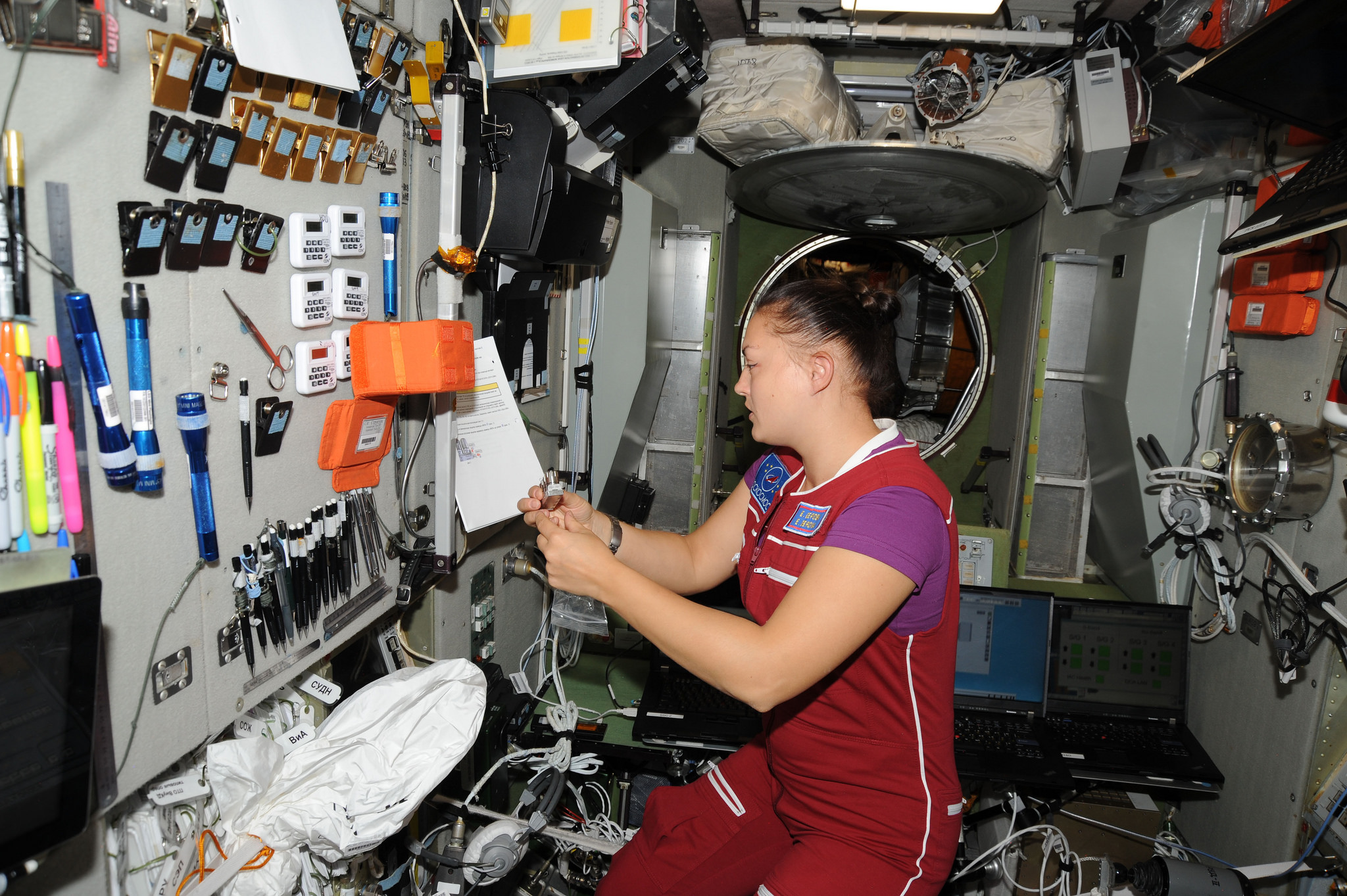 Russian cosmonaut Elena Serova, Expedition 41 flight engineer, works in the Zvezda Service Module of the International Space Station.